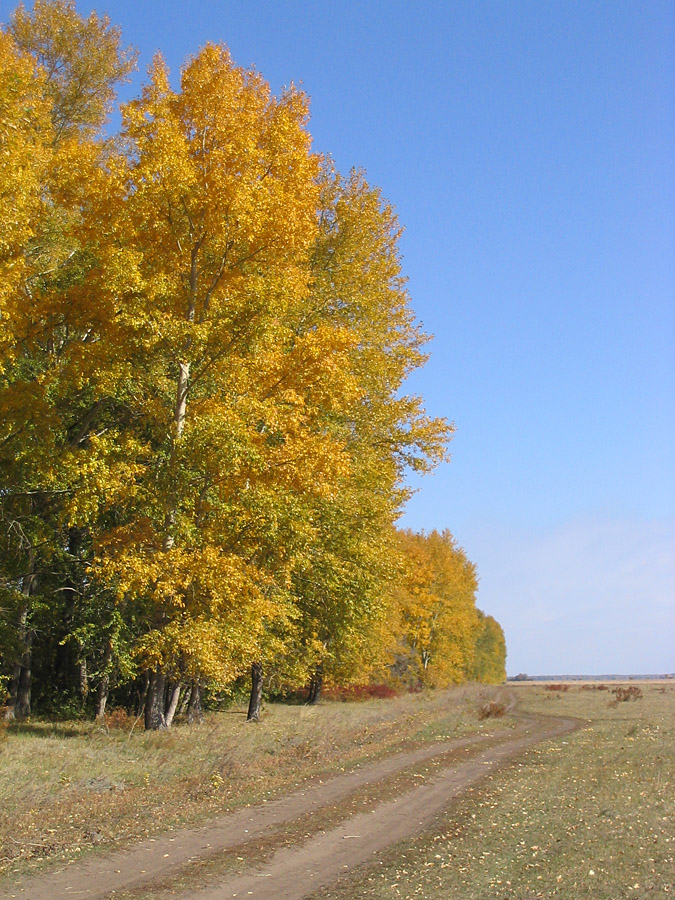 A shelter belt in Kulunda Steppe — Altai Krai, of Central Asian Russia.